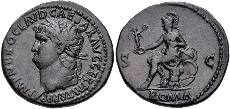 Nero. AD 54-68. Æ Sestertius (35mm, 21.99 g, 6h). Rome mint. Struck AD 66. Laureate head left Roma seated left on cuirass, holding Victory and parazonium; shields behind. RIC I 330; WCN 163